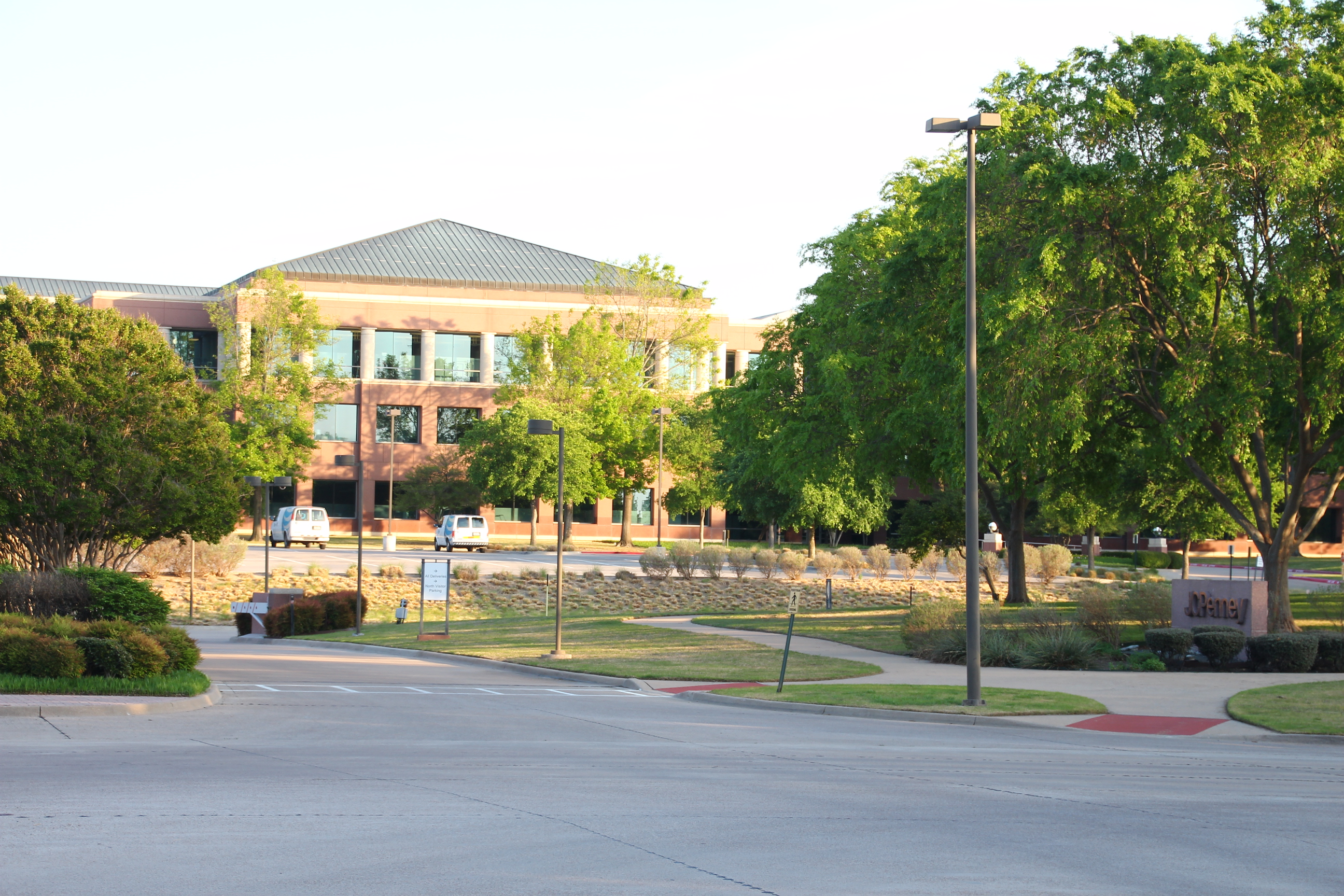 J. C. Penney corporate headquarters in Plano, Texas.